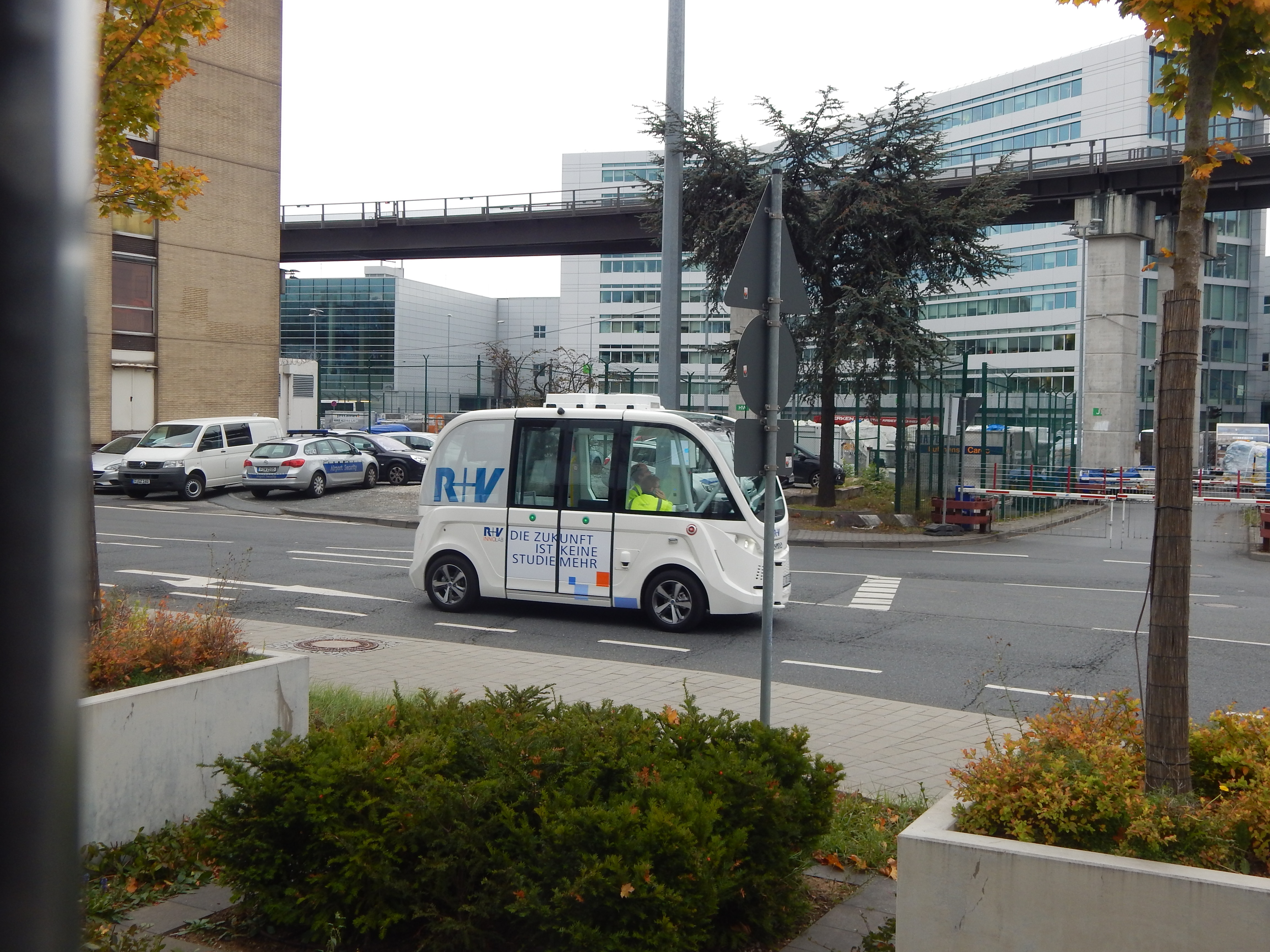 Test of driverless shuttle buses at Frankfurt / Main airport